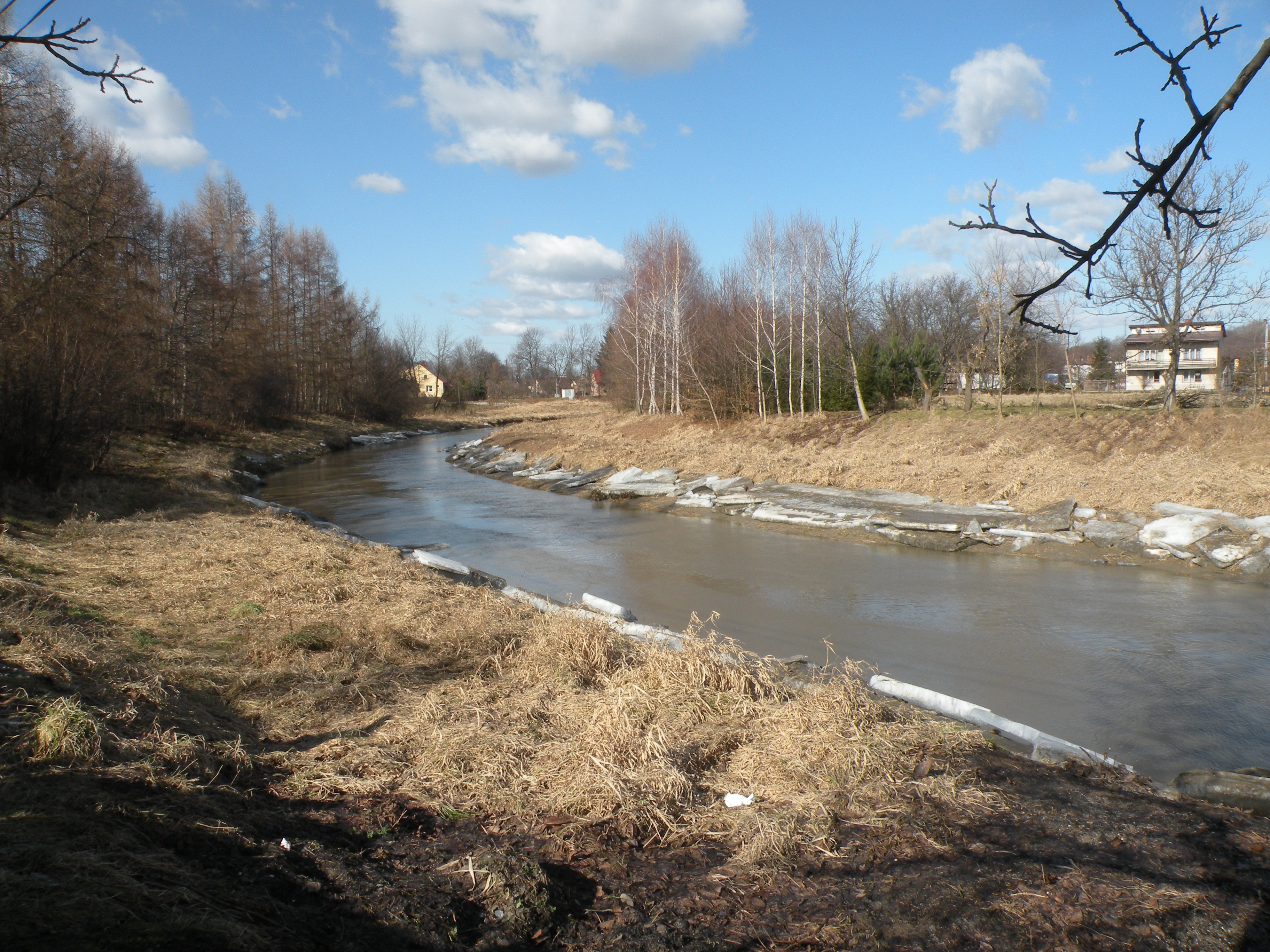 River Mleczka in Przeworsk (Żytnia Street)